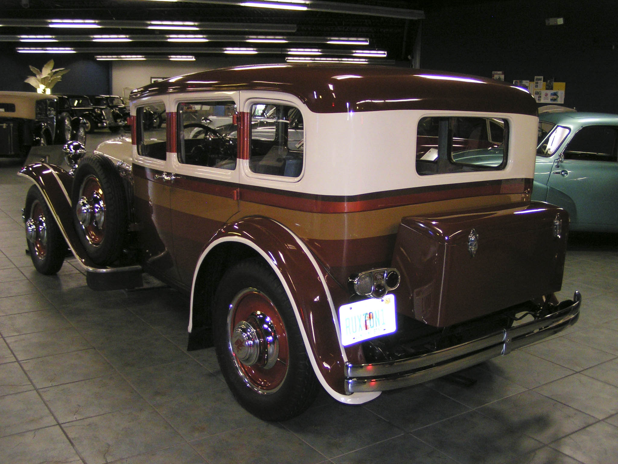 1929 Ruxton First attempt at an American front wheel drive car in the USA - this is a prototype from 1929. Features a Continental eight cylinder engine and three speed gearbox for a 70mph top speed.1929 Ruxton